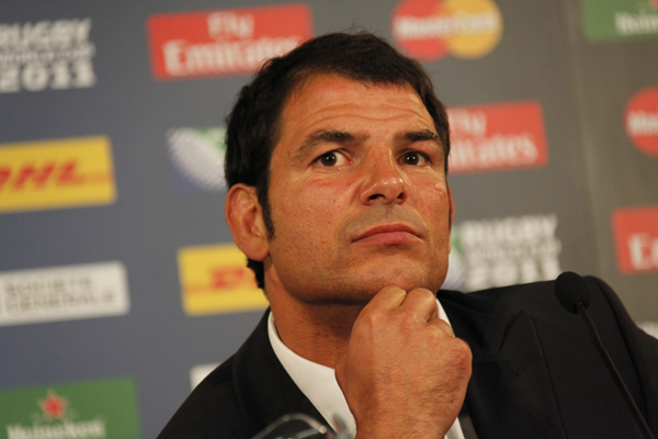 Marc Lièvremont, then coach of France national rugby union team, at a press conference during the 2011 Rugby World Cup